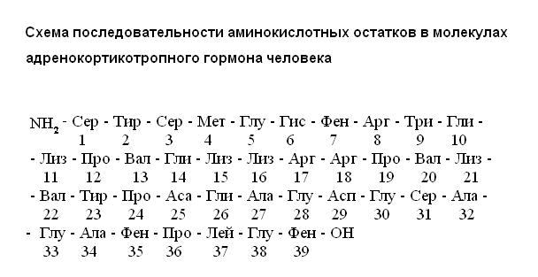 sequence of amino acids in molecule of adrenocorticotropic hormone